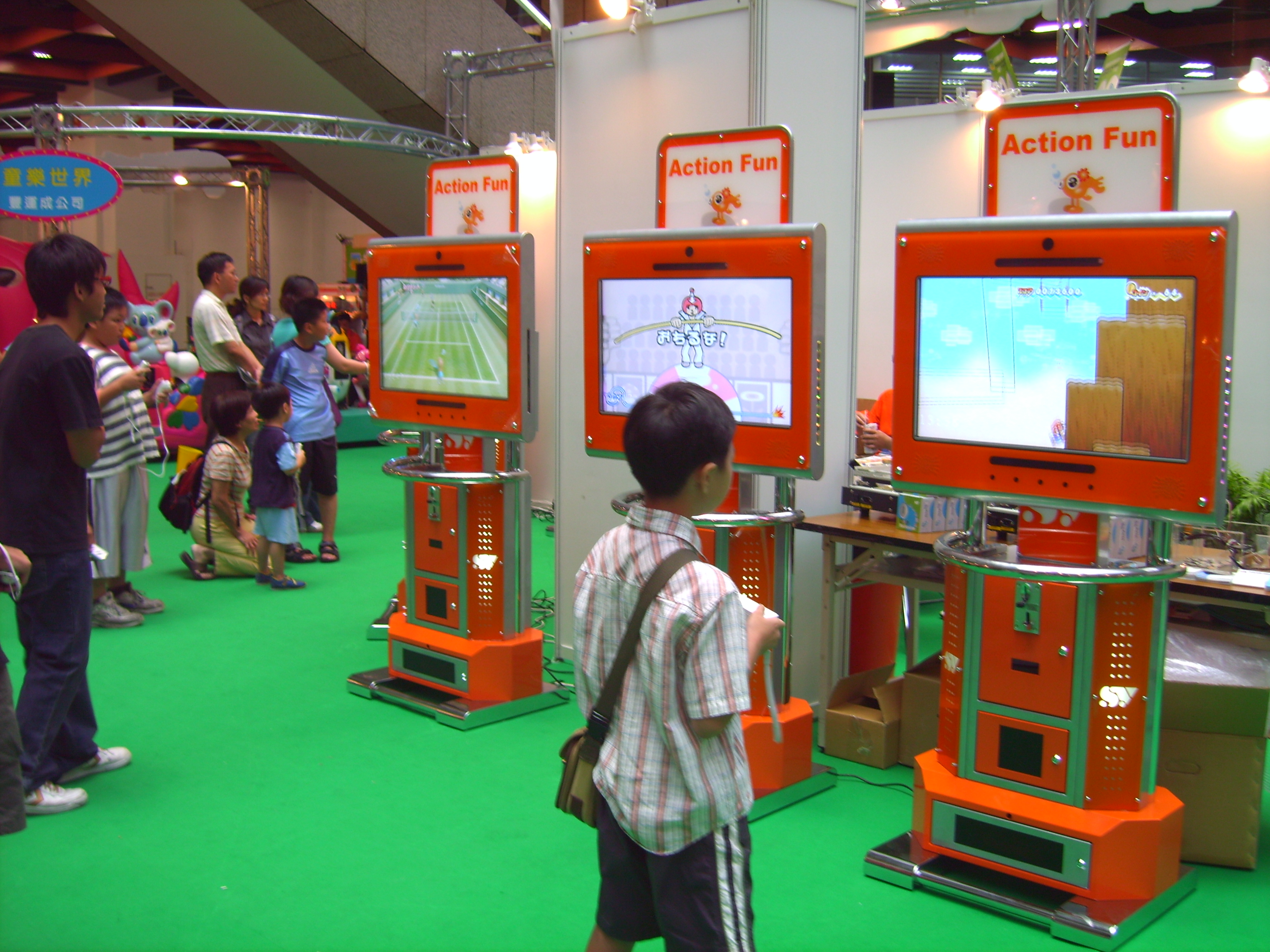 Leisure Taiwan 2007: Wii experience section at Digital Entertainment Pavilion.